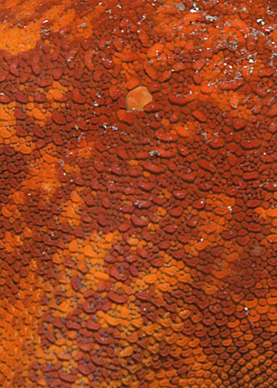 Close up of a starfish, showing flesh colours, pattern and texture